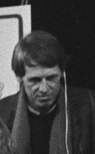 Dutch journalist Cees (Kees) Sorgdrager (Oct. 1985)